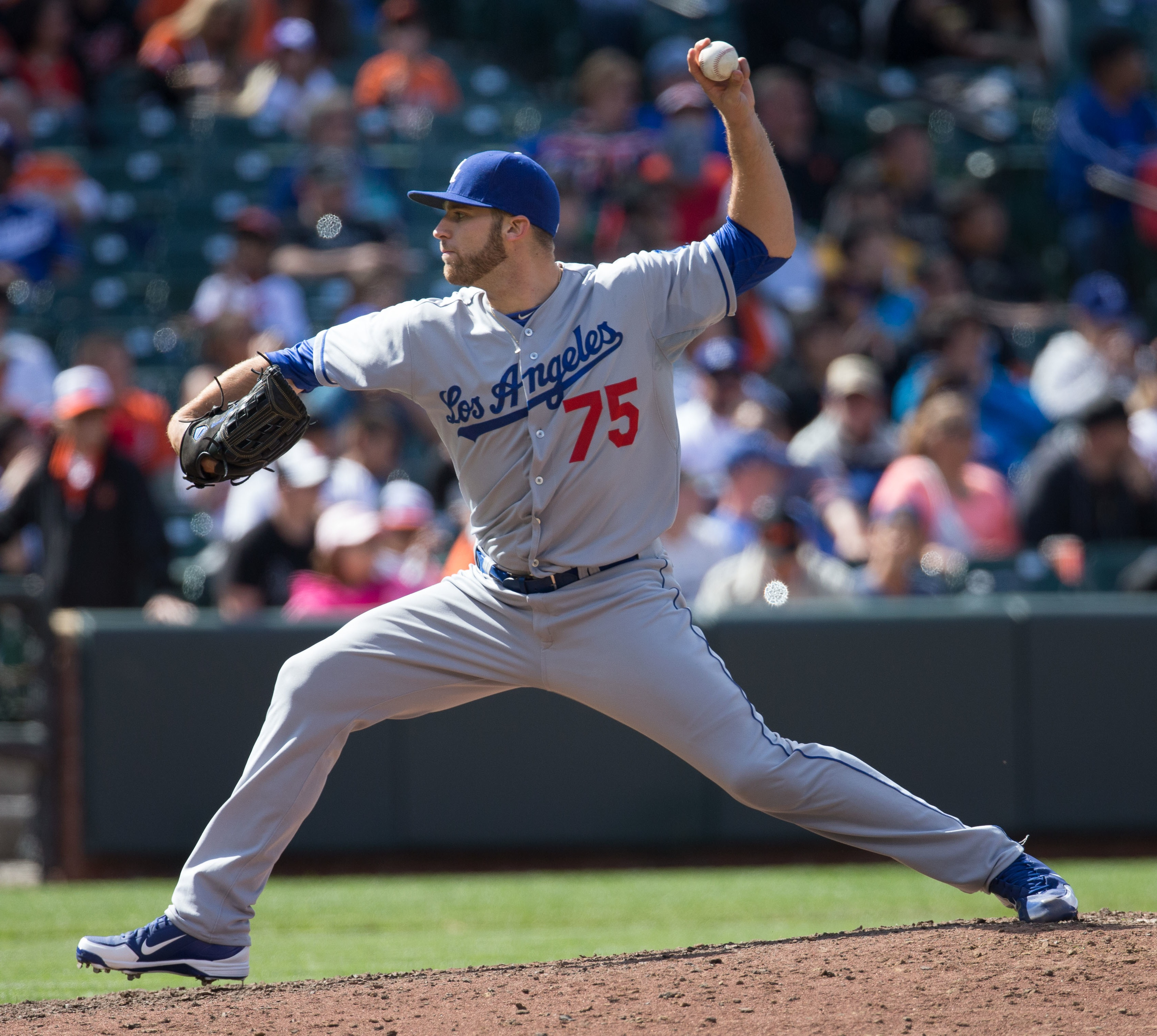 Los Angeles Dodgers pitcher Steven Rodriguez – Los Angeles Dodgers at Baltimore Orioles April 20, 2013